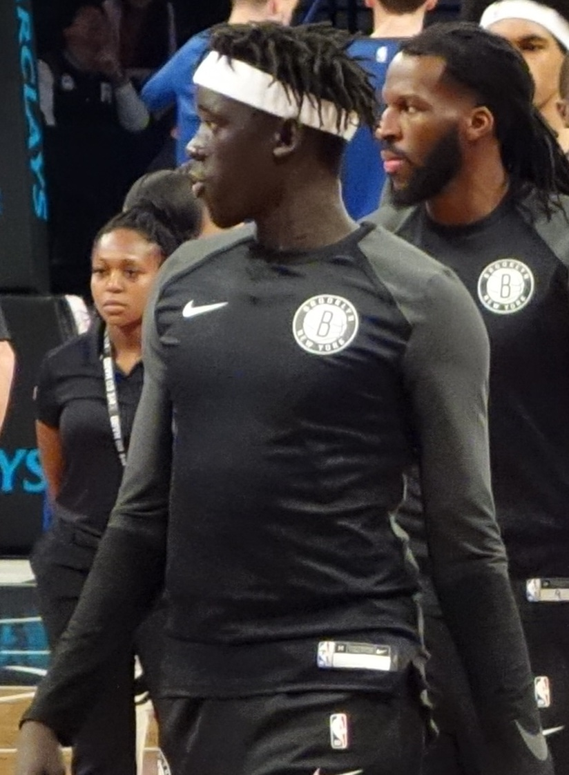 Brooklyn Nets forward Nuni Omot warming up prior to the NBA Preseason game between the Brooklyn Nets and the New York Knicks at the Barclays Center on October 3, 2018. Omot, born in Kenya and growing up in Minnesota, attended Baylor and went undrafted in this year's NBA draft. He is one of several players trying to "walk on" to the Nets squad.